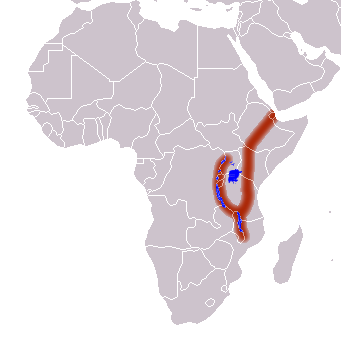 Great rift, Africa.